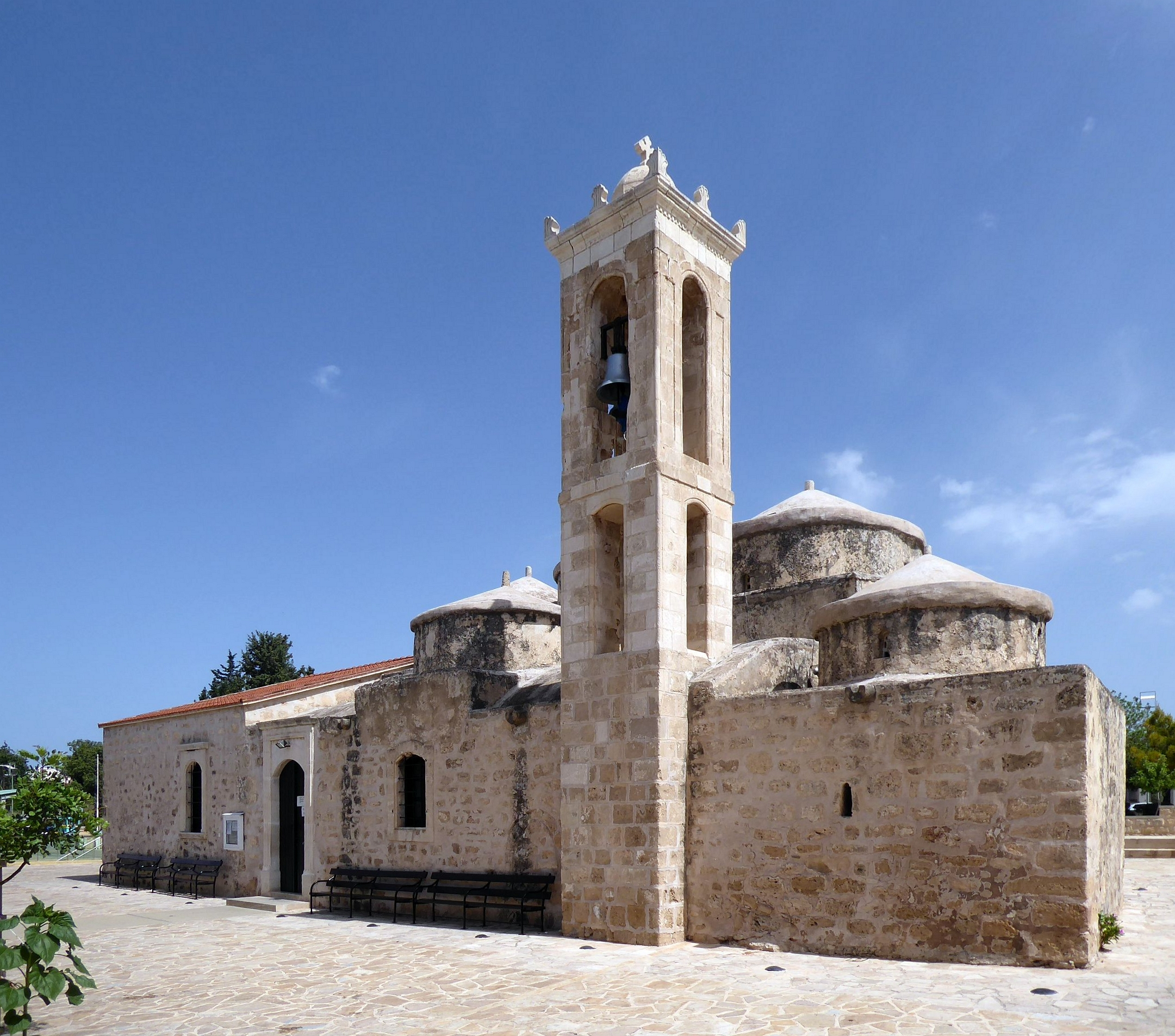 Yeroskipou - Agia Paraskevi